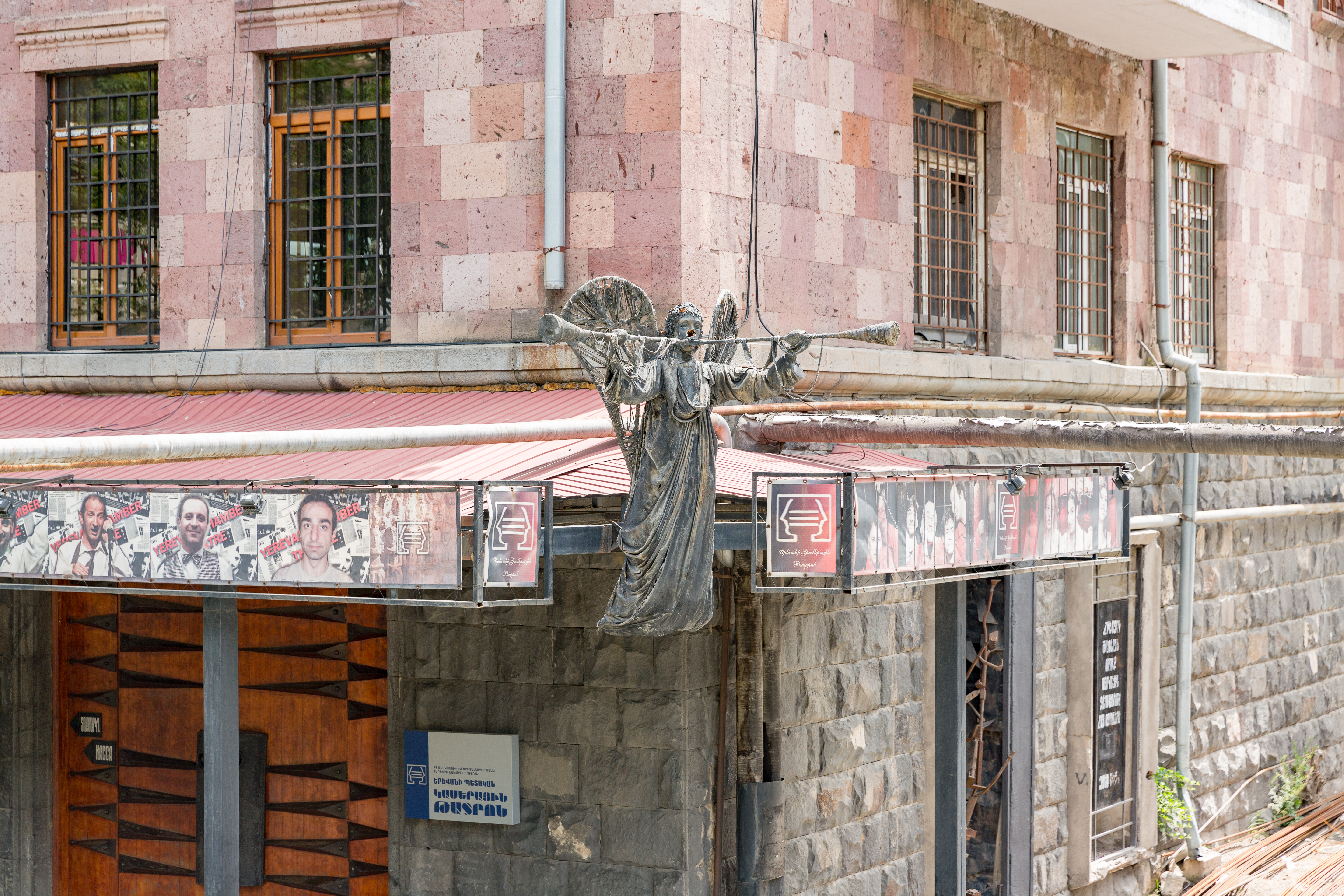 Yerevan Chamber Theatre, Armenia